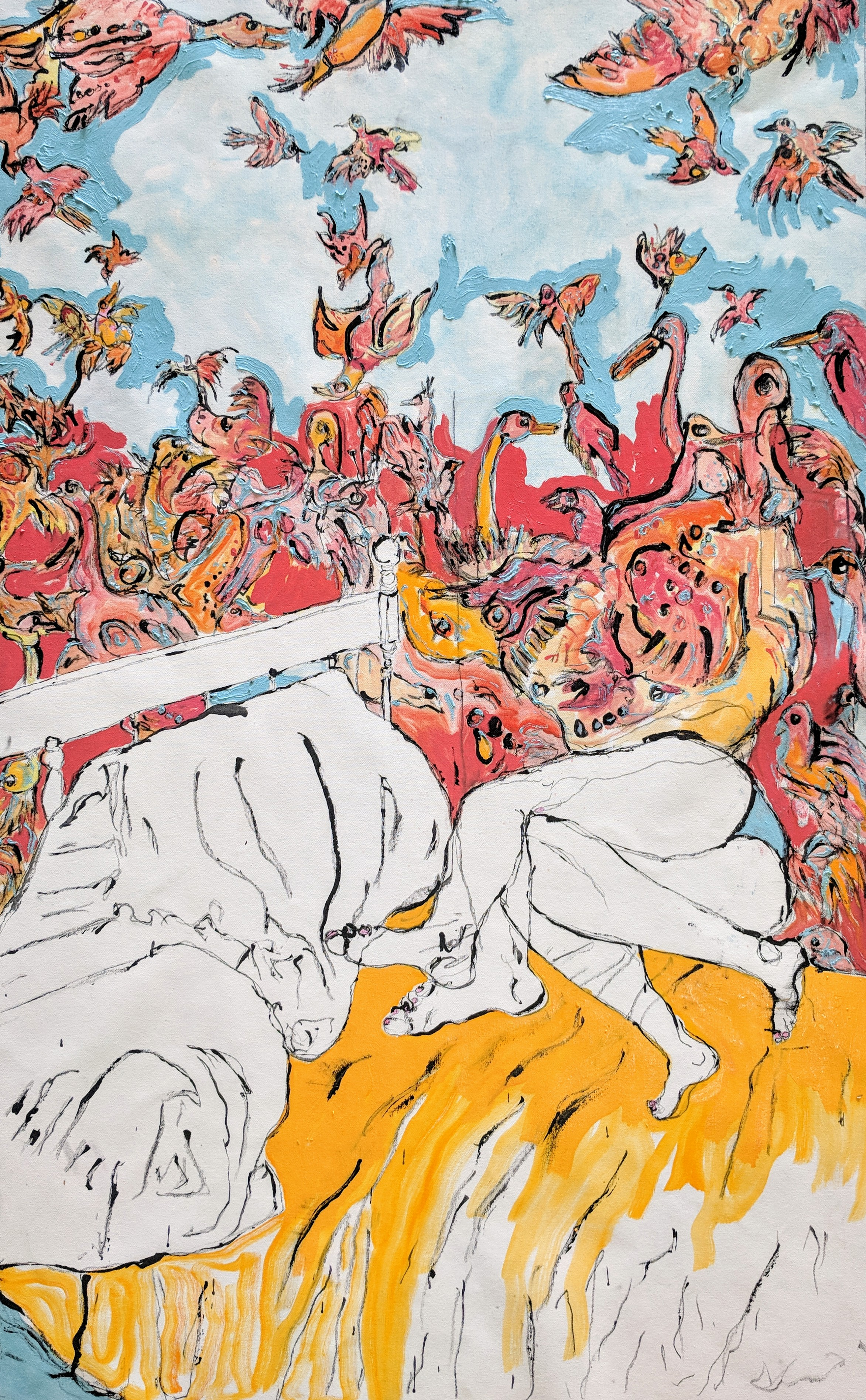 L'Appel du Vide painting, 2018.